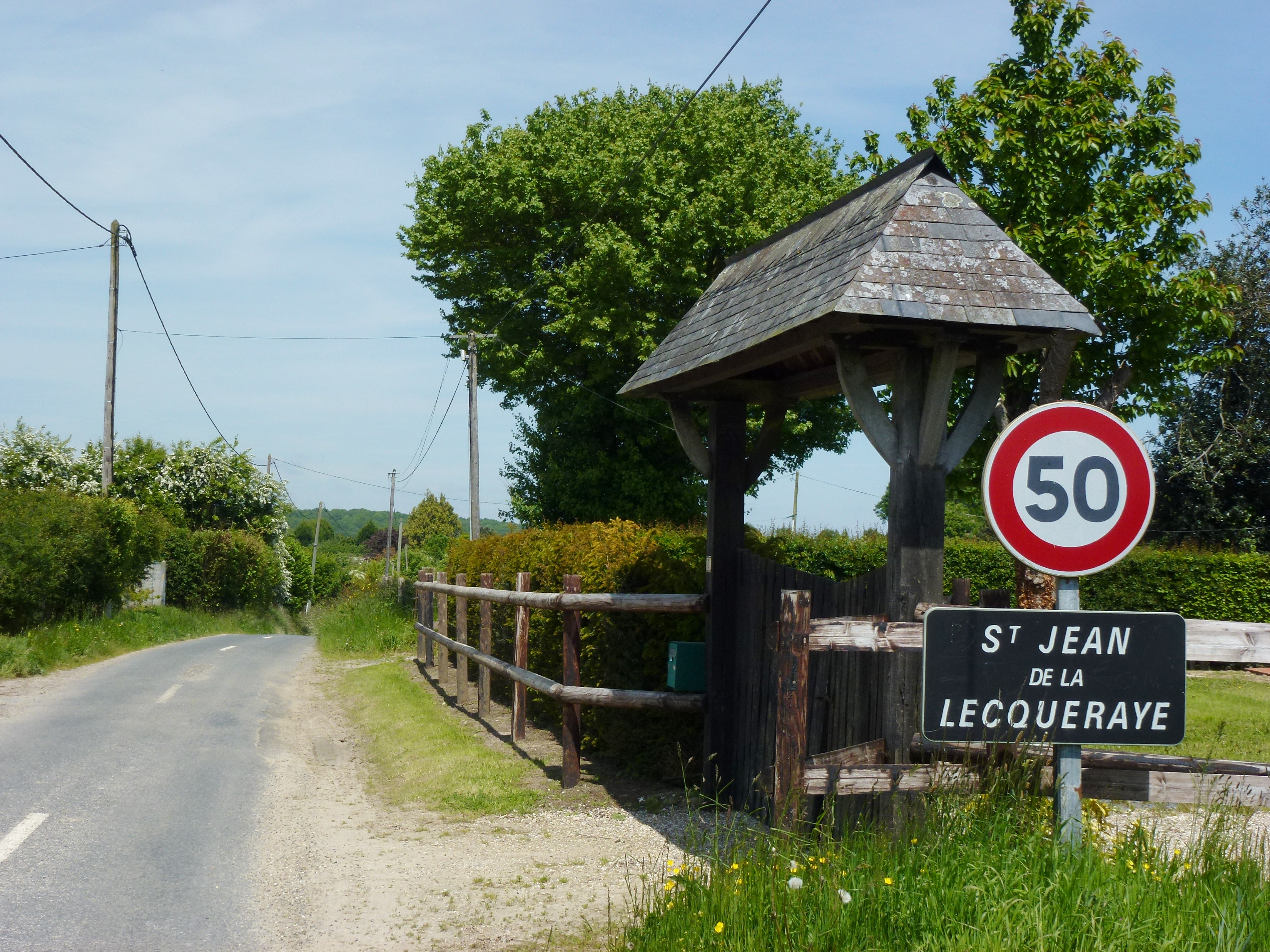 Saint-Jean-de-la-Léqueraye (Eure, Fr) city limit sign